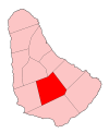 Map of Barbados showing Saint George parish.